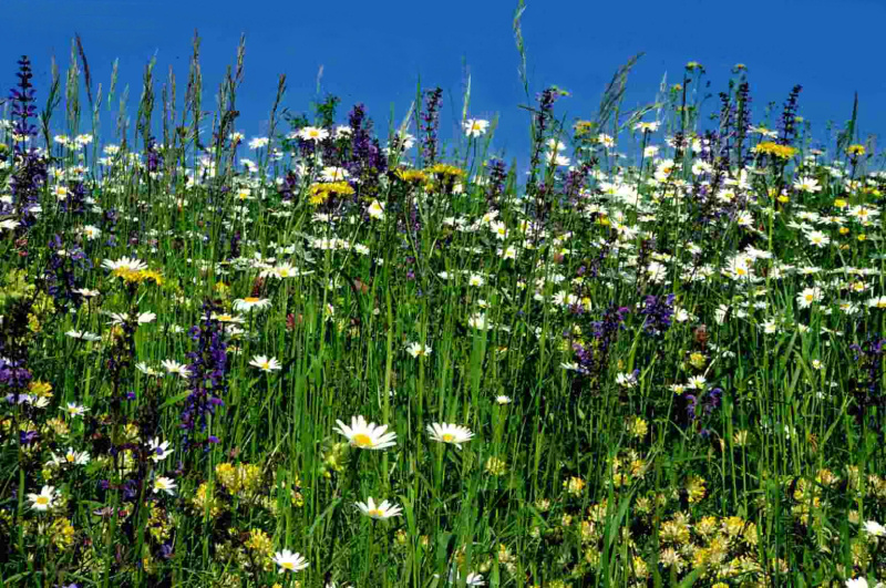 Meadow with many flowers, colorful, a nutrient-poor meadow (like “rough pasture”), in South West Germany.